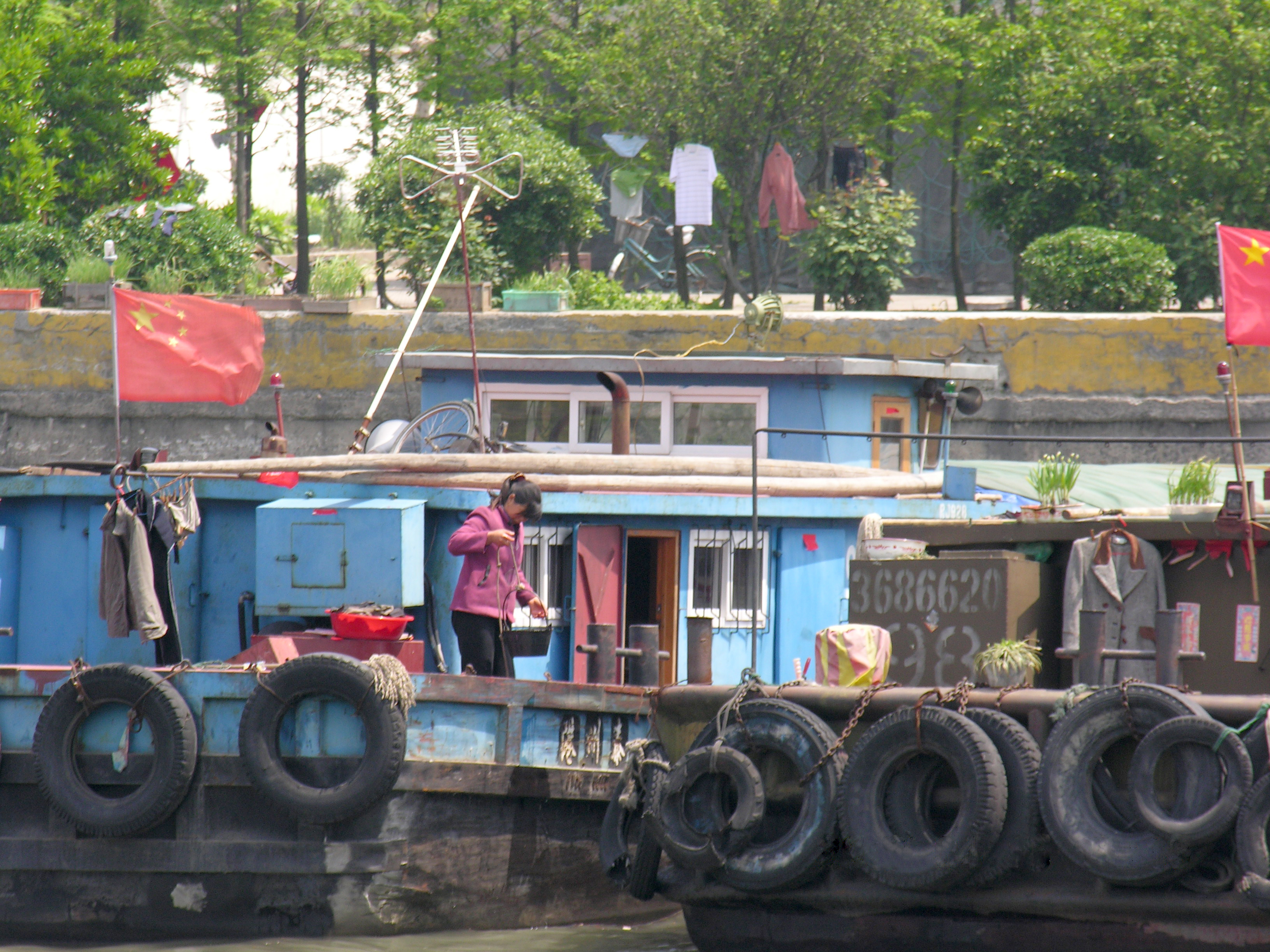 运河船上的女人。 by IcaN